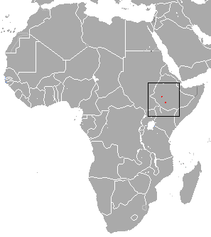 Guramba Shrew (Crocidura phaeura) range